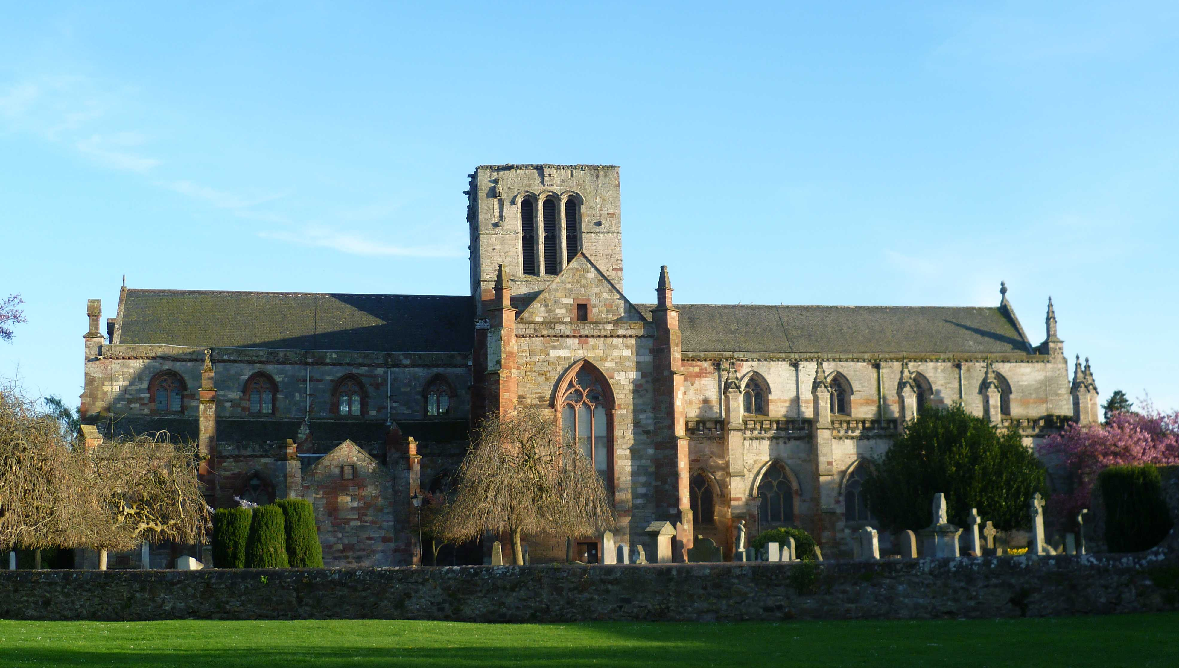 Scotland's largest parish kirk was built in the 15th century. Its popular epithet, "The Lamp of Lothian", appears to have been transferred from a 13th-century Franciscan monastery on the site when the Lothians suffered from the ravages of Edward III's invasion of Scotland in the so-called 'Burnt Candlemas' of 1356. The present building was completed as a collegiate church in 1486